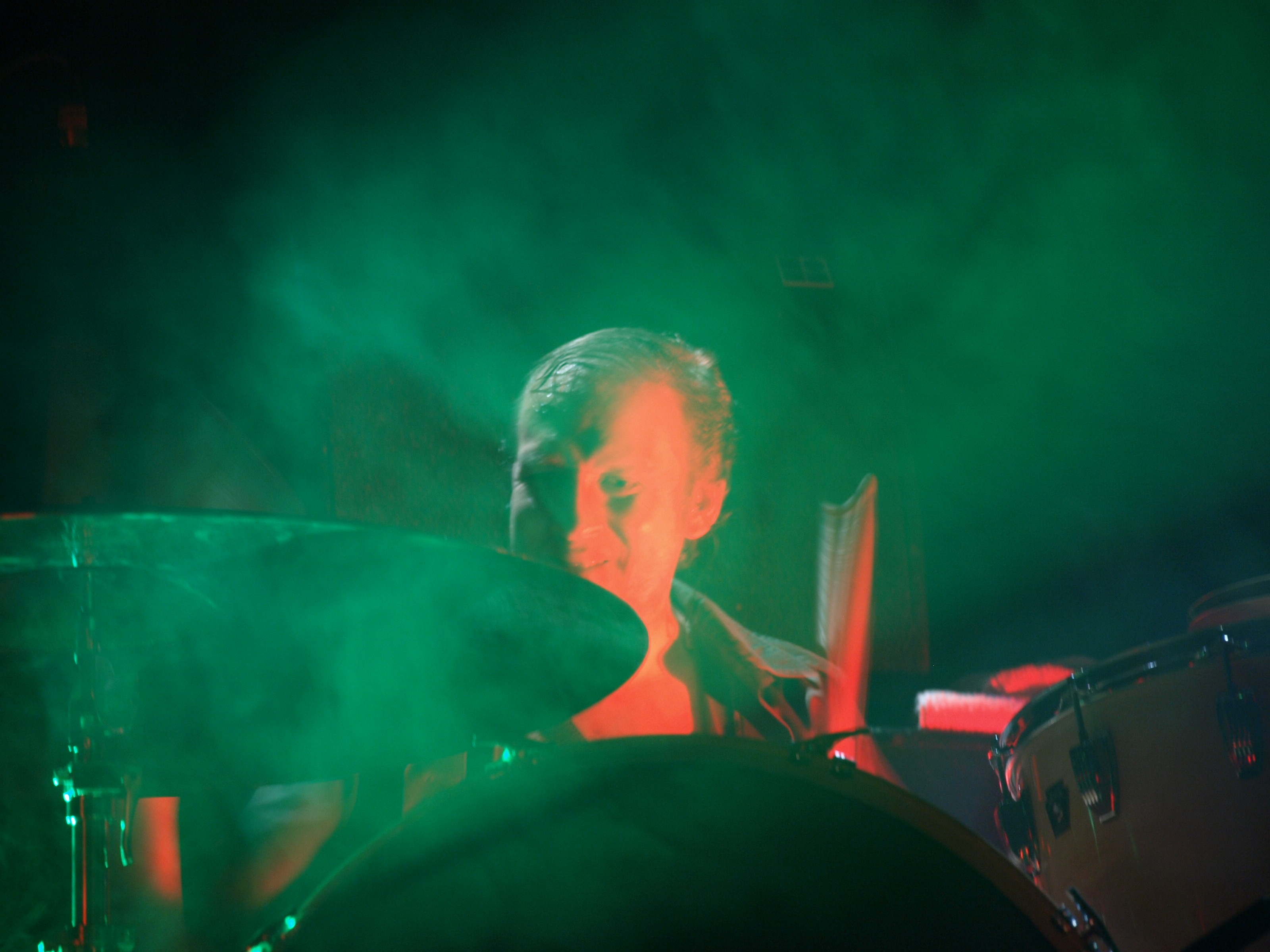 Finnish doom metal band KYPCK live at Jalometalli 2008 in Oulu.